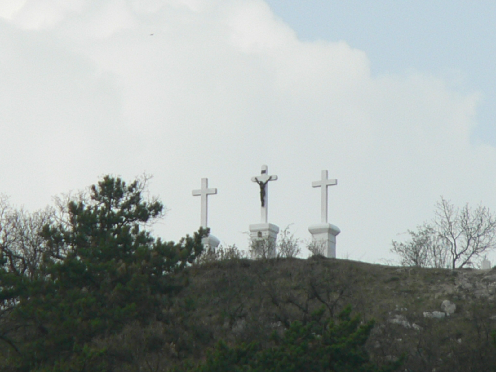 A pesthidegkúti Kálvária-hegy keresztjei távolról nézve